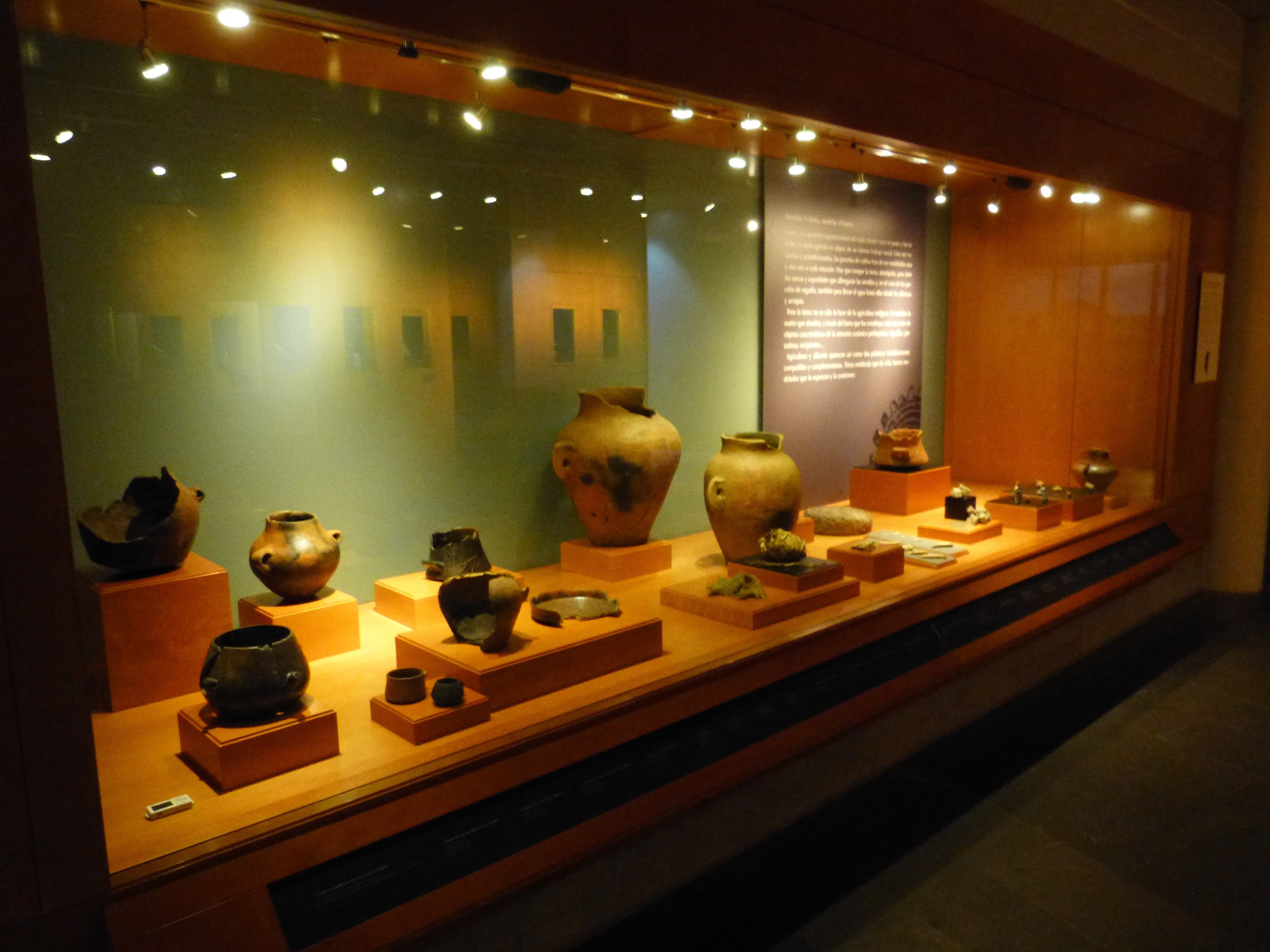 Gáldar (Gran Canaria). Museum "Cueva pintada" - Exhibition: Guanche ceramics.